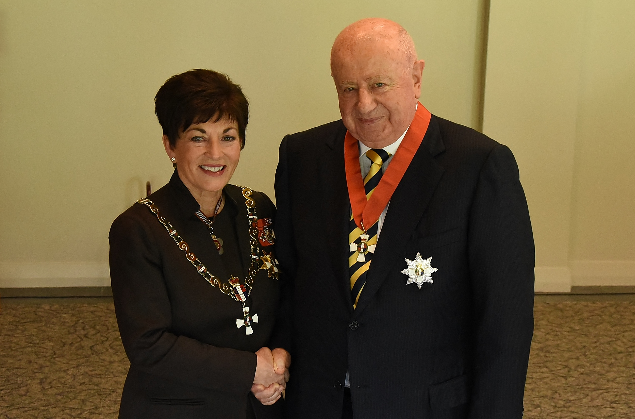 Sir Michael Friedlander, of Remuera, after his investiture as KNZM, for services to philanthropy, by the governor-general, Dame Patsy Reddy, on 6 October 2016